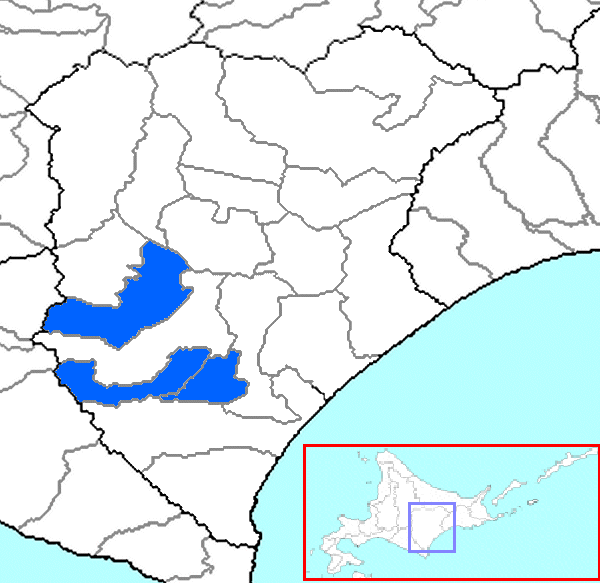 The location of Kasai District in Tokachi Subprefecture, Hokkaido Prefecture, Japan.